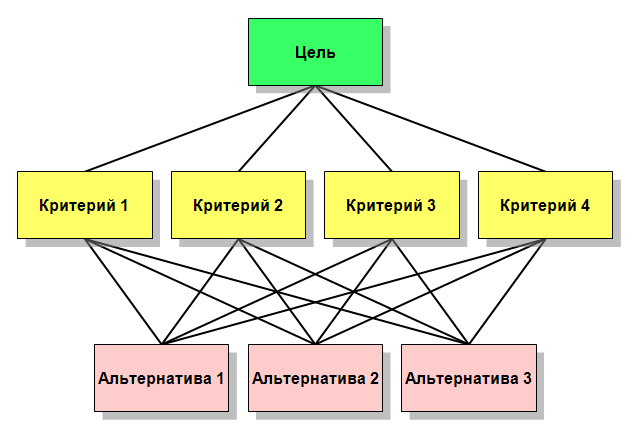 Part of a series of images to illustrate an article on the Analytic Hierarchy Process